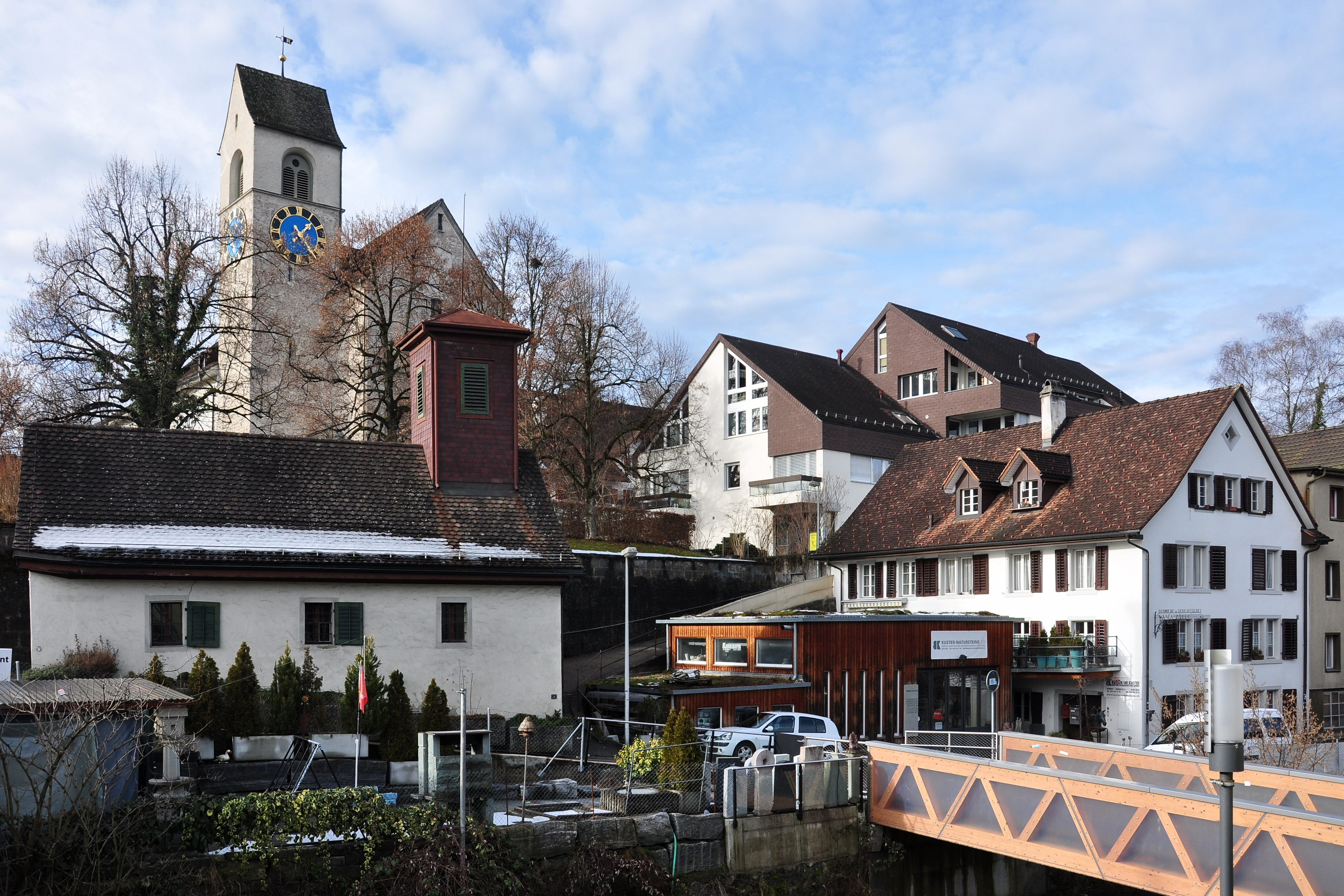 Rüti (ZH) : Former Rüti Abbey's site respectively as of today Rüti's Protestant church, as seen from Dorfstrasse, Jona river to the right.